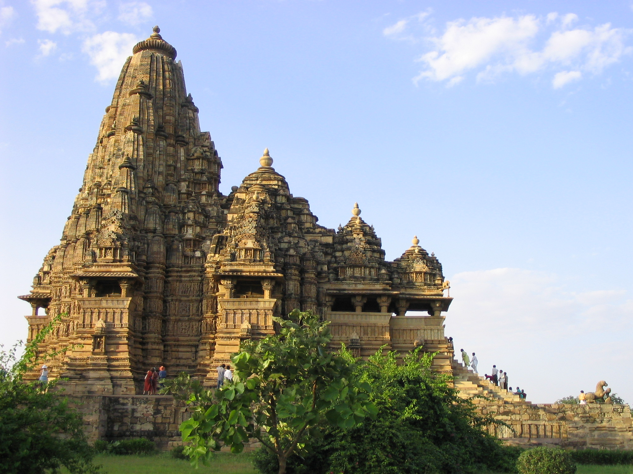 Khajuraho, temple